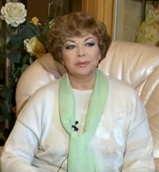 Edita Piekha, a Russian singer